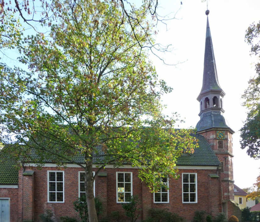 evang. church in Bremen-Walle Das abgebildete Objekt ist ein geschütztes Kulturdenkmal in der Freien Hansestadt Bremen, mit der Nr. 0837 beim Landesamt für Denkmalpflege registriert.